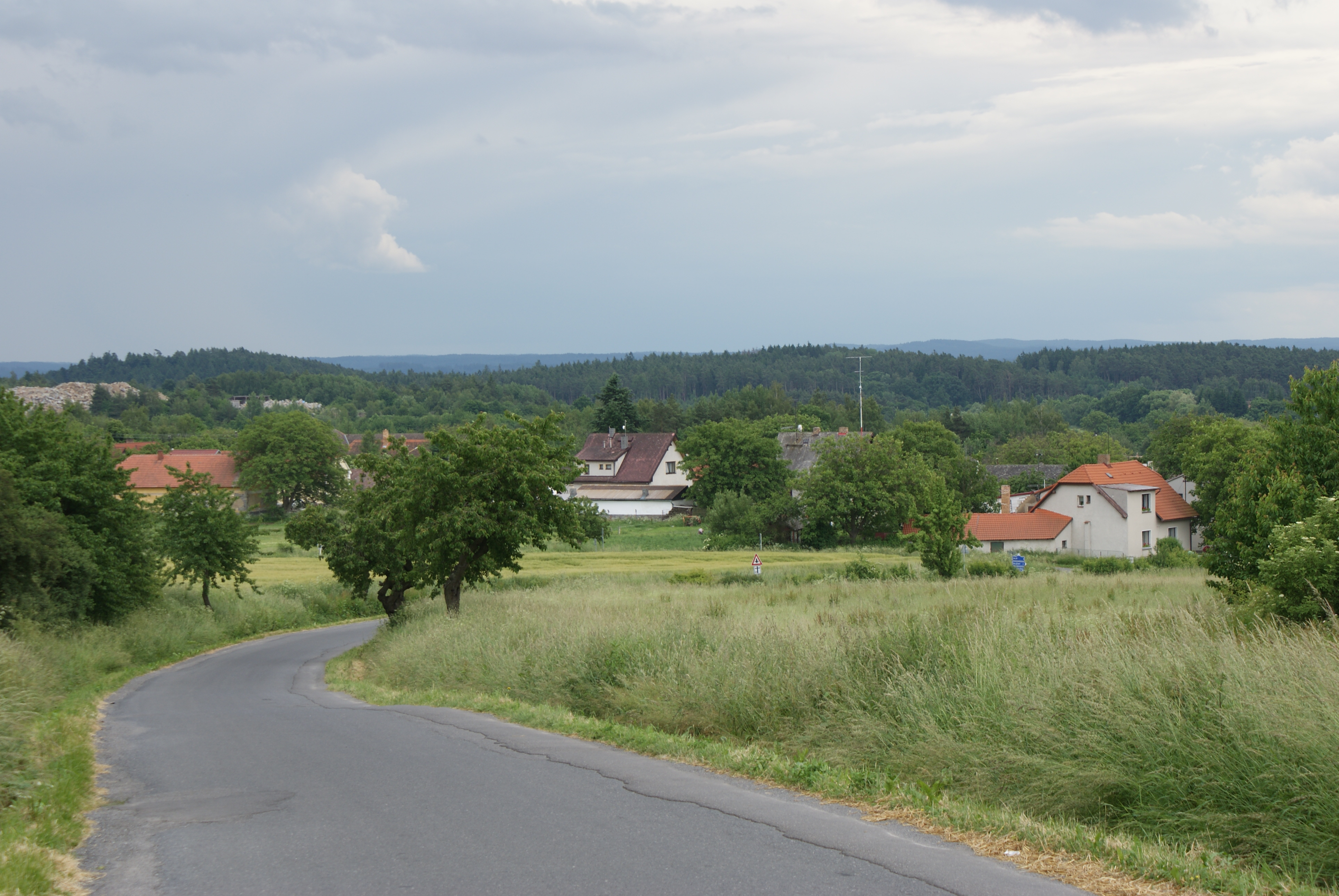 Kozárovice, a village in Příbram district, Czech Republic, general view. Česky: Kozárovice, okres Příbram